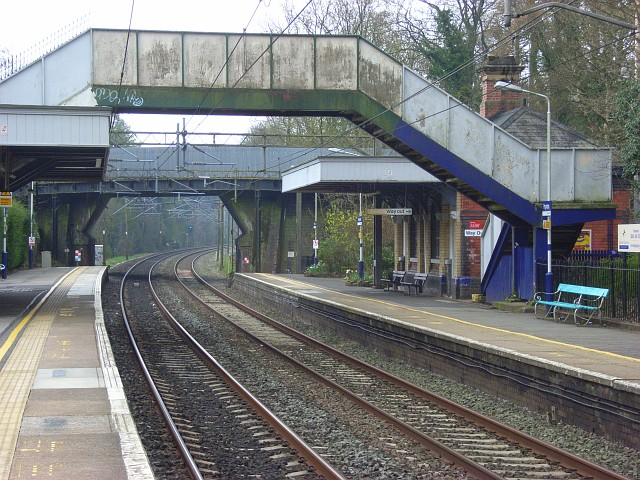 Poynton Station Towards the west of this commuter village on the Macclesfield to Stockport line and looking towards the former and the bridge over the Chester Road. All quiet and unmanned on a Sunday lunchtime.